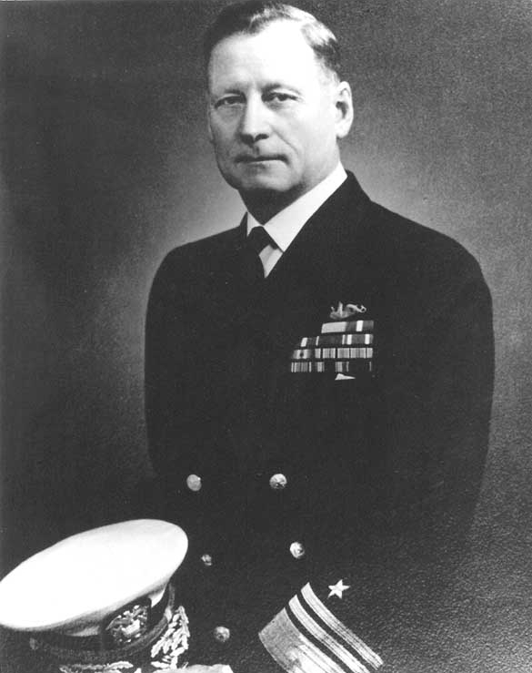 Vice Admiral Paul F. Foster, USNR, photographed circa the 1950s. As an Ensign, Foster was awarded the Medal of Honor for "distinguished conduct in battle" during the intervention at Vera Cruz, Mexico on 21-22 April 1914.